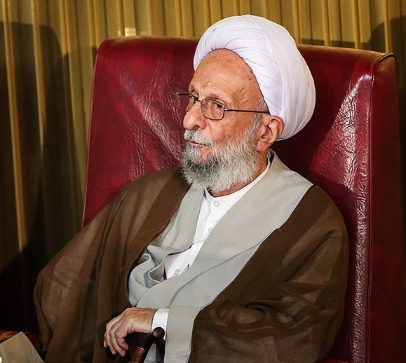 Mohammad-Taqi Mesbah-Yazdi in Assembly of Experts